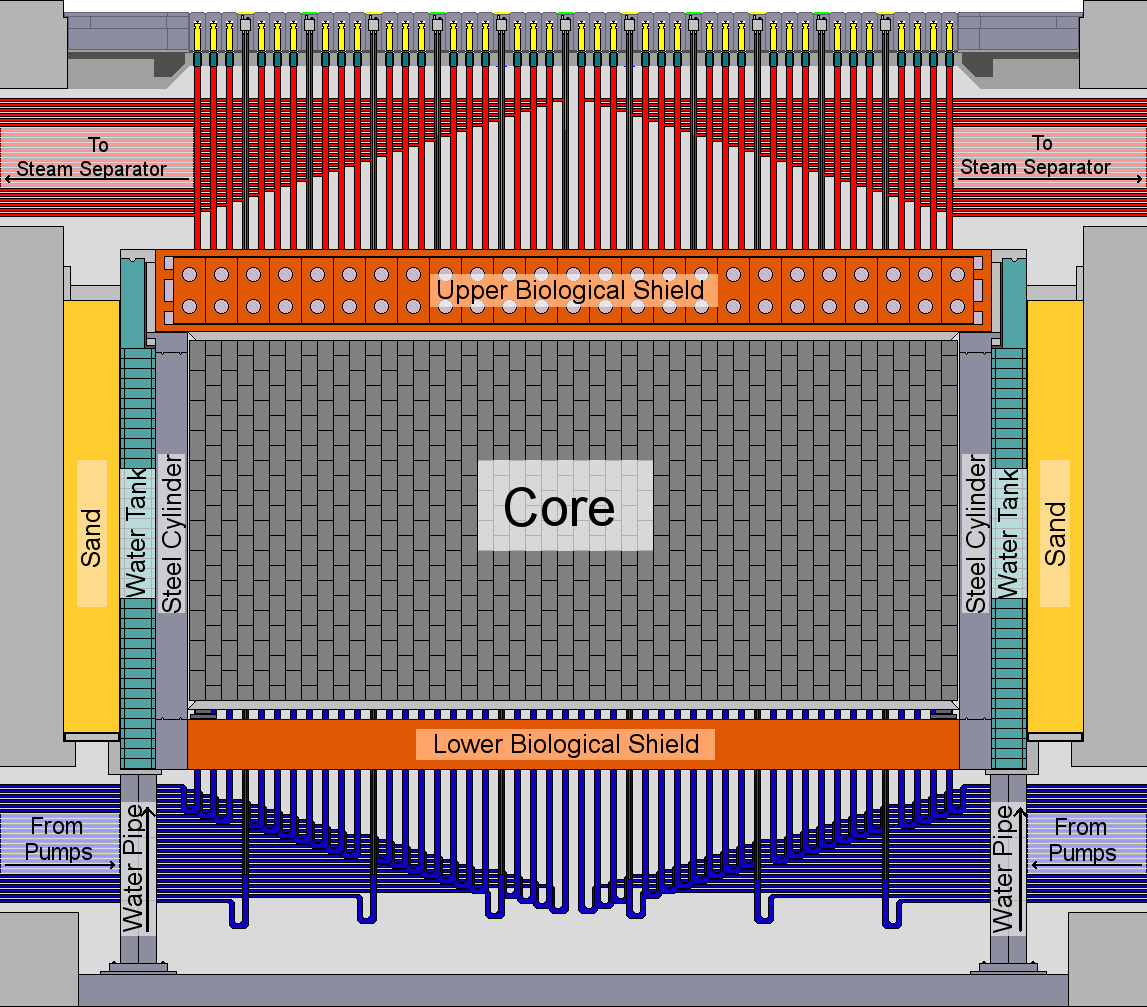 Originally by ChNPP: Translated by me.